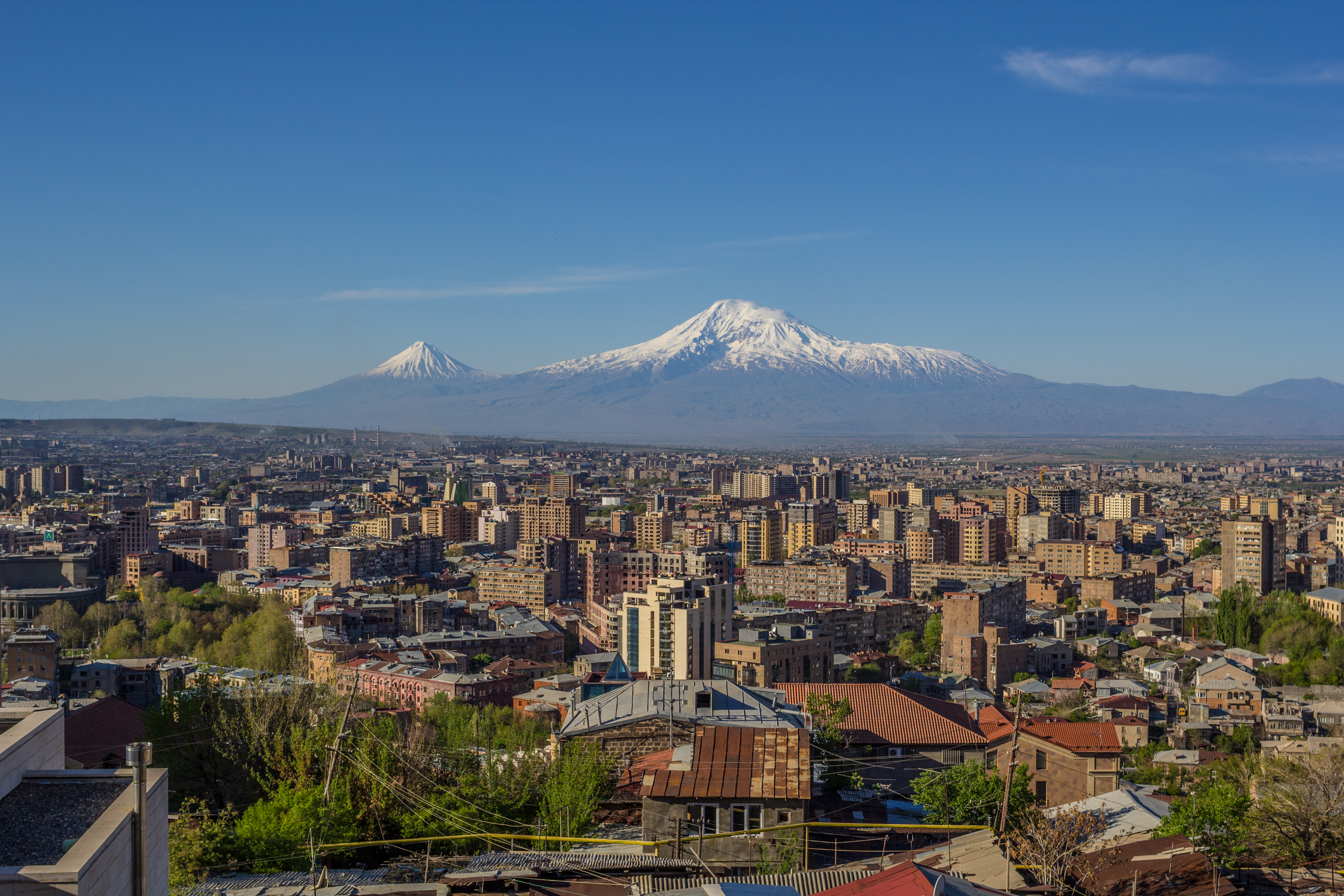 A view of Masis (Mount Ararat) on a clear day in Yerevan -- April 24, 2014, when the world commemorates the 99th anniversary of the start of the Armenian Genocide.